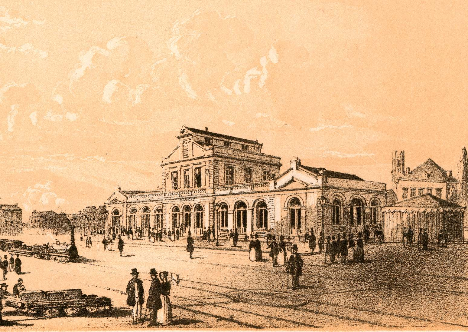 The first railway station of Bruges, located at 't Zand (1844), was demolished in 1879 and reconstructed in Ronse